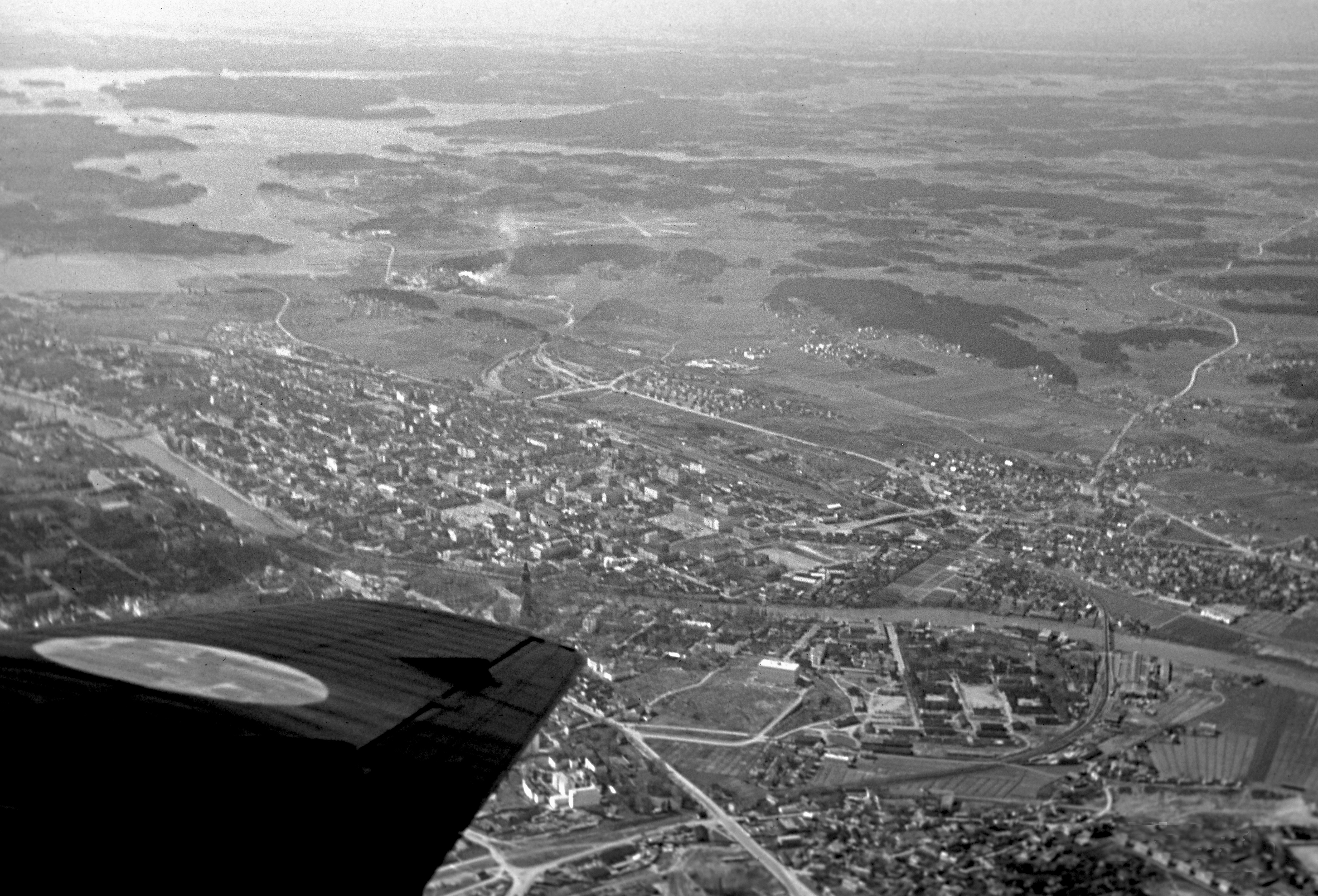 Aerial photograph of Turku, Finland taken on 17 May 1944 from an SB-2 aircraft of the Finnish Air Force. Artukainen Airport is visible above the city.